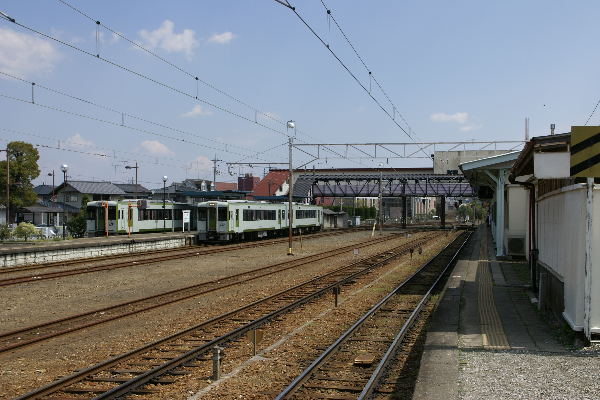 JR East Hachiko Line KiHa 110 DMUs cross at Yorii Station. The platform on the right is the Chichibu Railway platform.